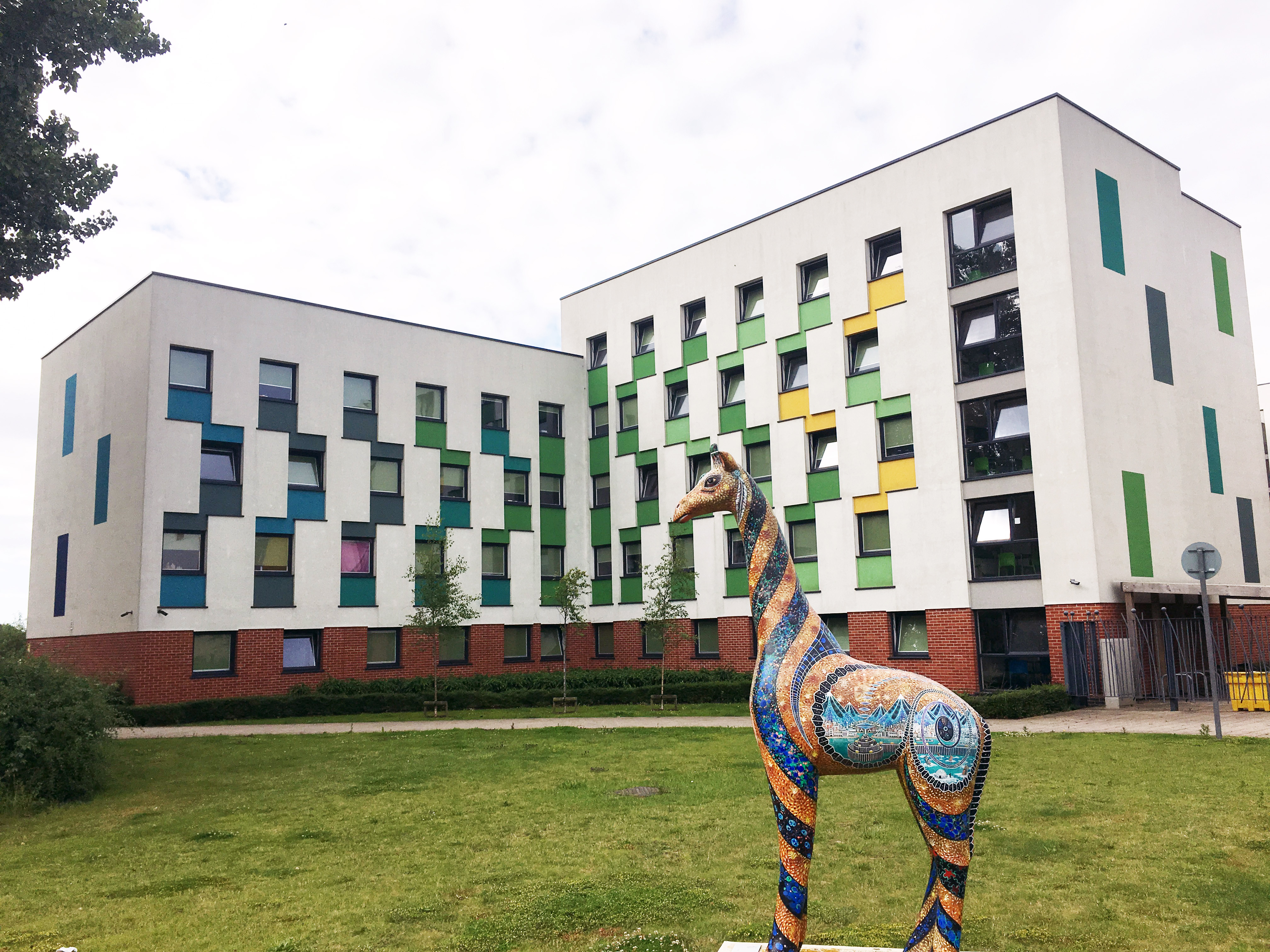 The Meadows student accommodation, Colchester Campus, University of Essex